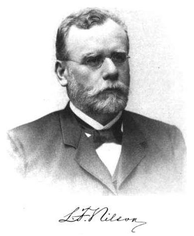 Picture of Lars Fredrik Nilson, the Swedish chemist who discovered scandium